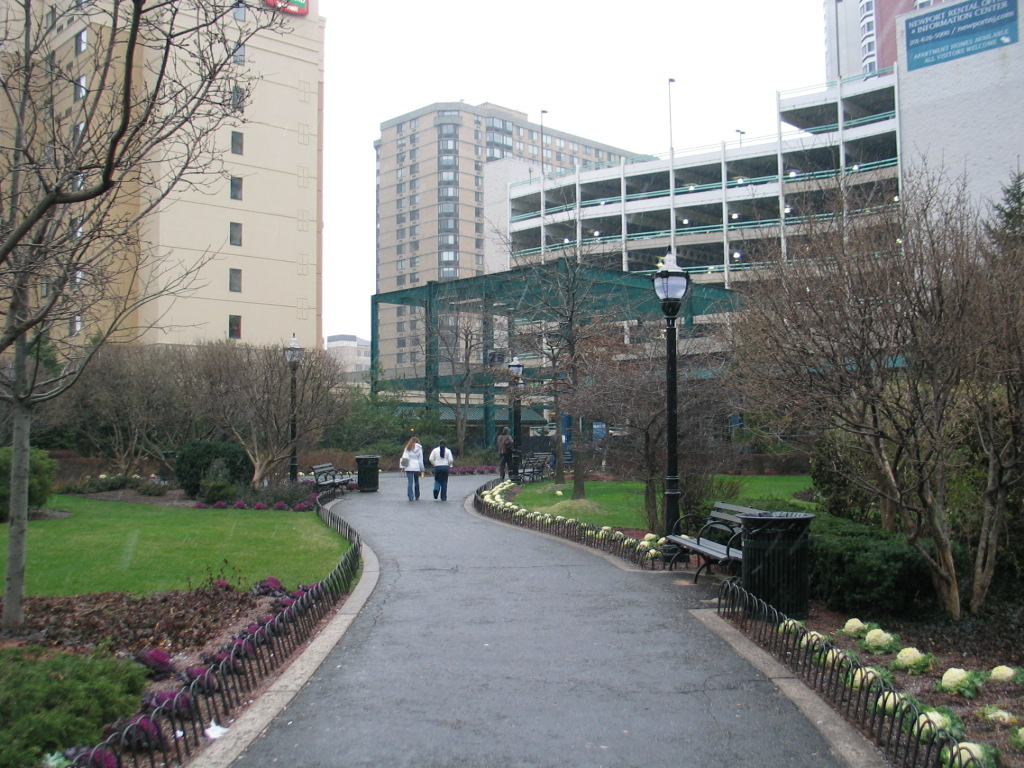 Looking northeast in front of Path station in Pavonia Newport.